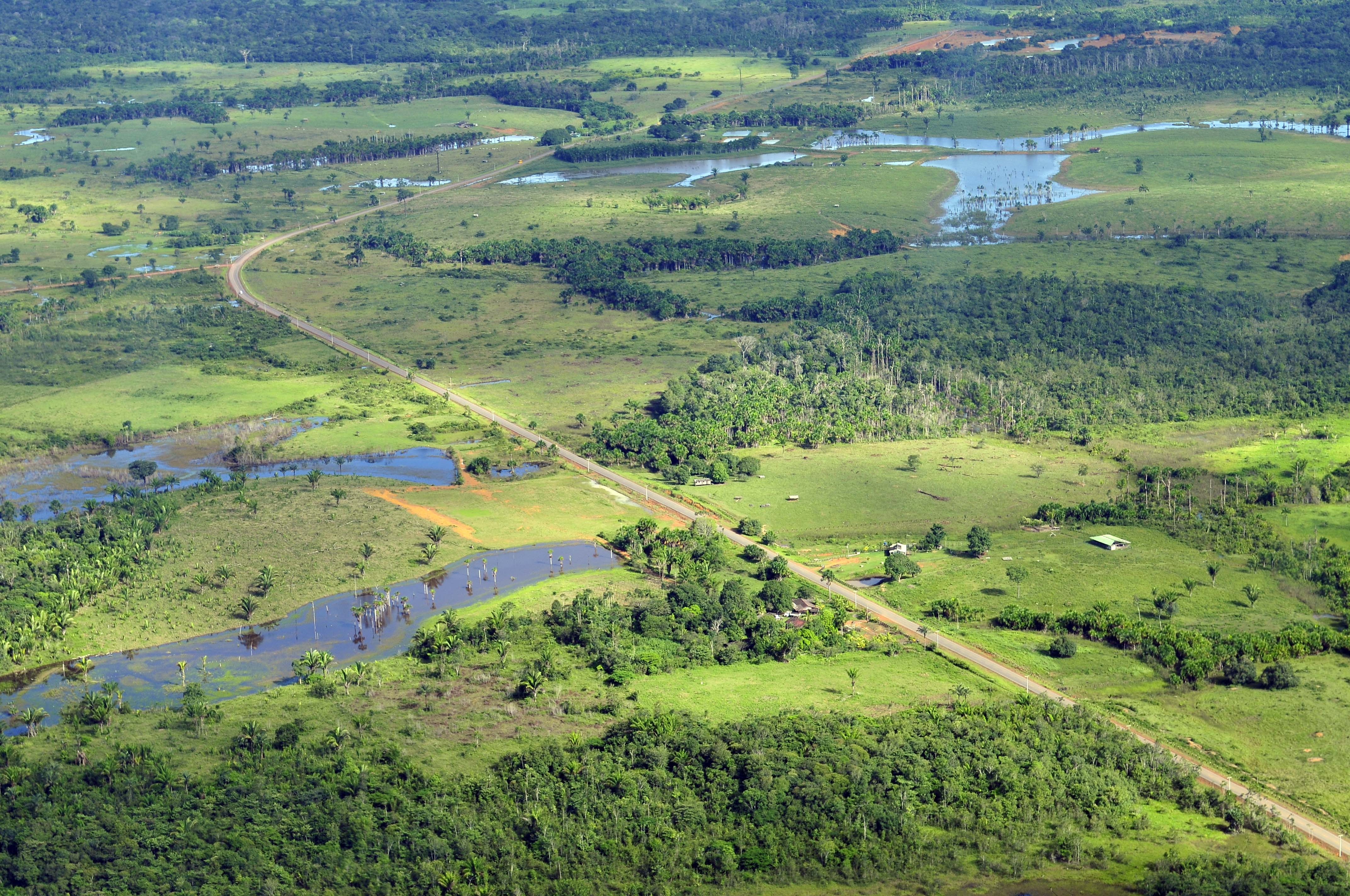 Pic by Neil Palmer (CIAT). Aerial view of the Amazon Rainforest, near Manaus, the capital of the Brazilian state of Amazonas.